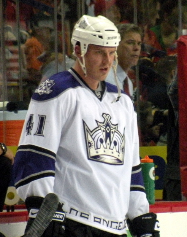 Los Angeles Kings forward Raitis Ivanans during warmup prior to a National Hockey League game against the Calgary Flames in Calgary.